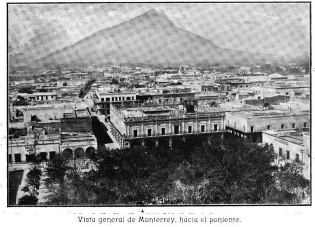 Panoramic view of Monterrey, Mexico in 1902. Shown are Zaragoza Square, the main building of the municipality, and "Mitras" mountain.